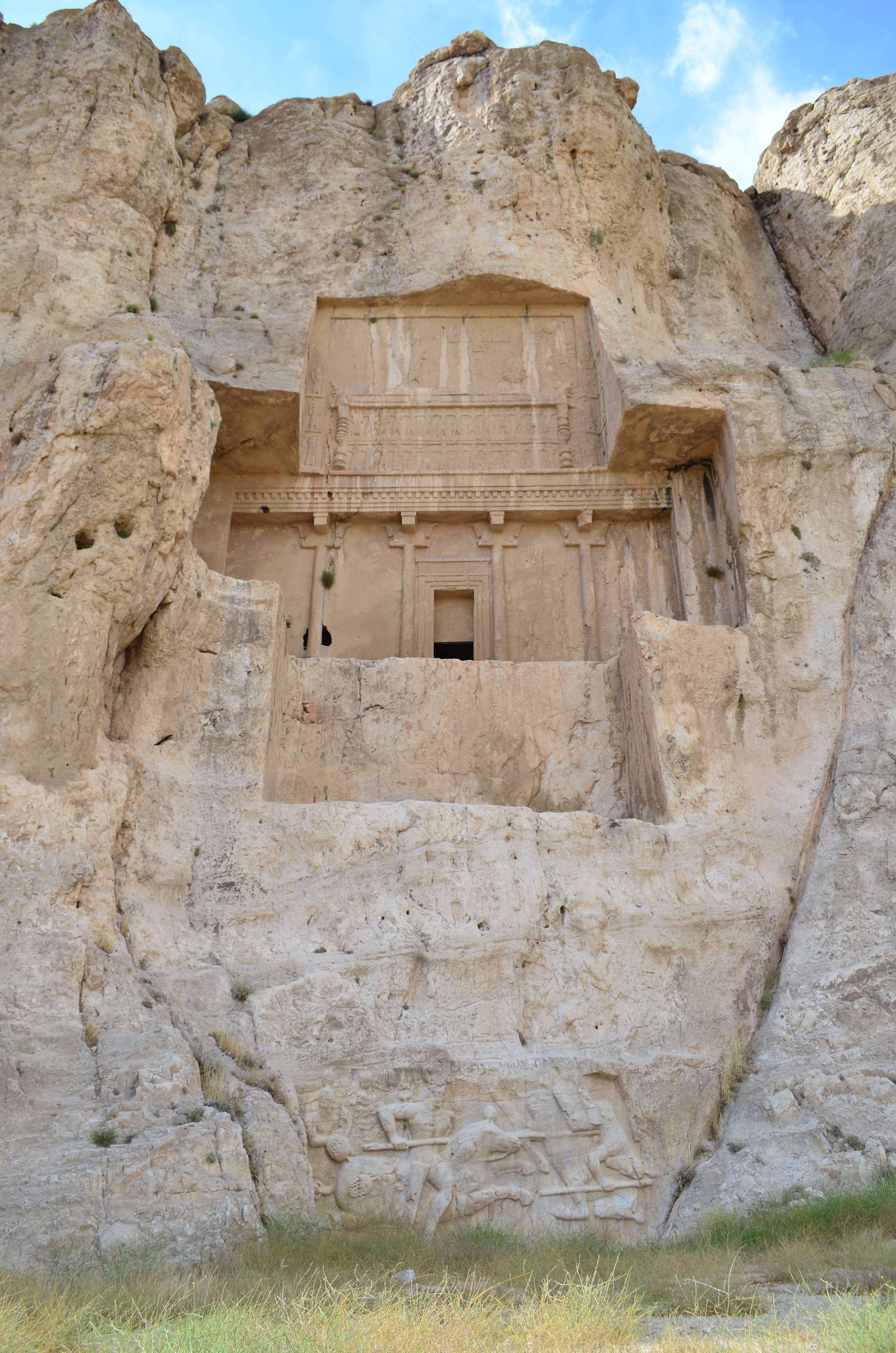 Naqsh-e Rustam